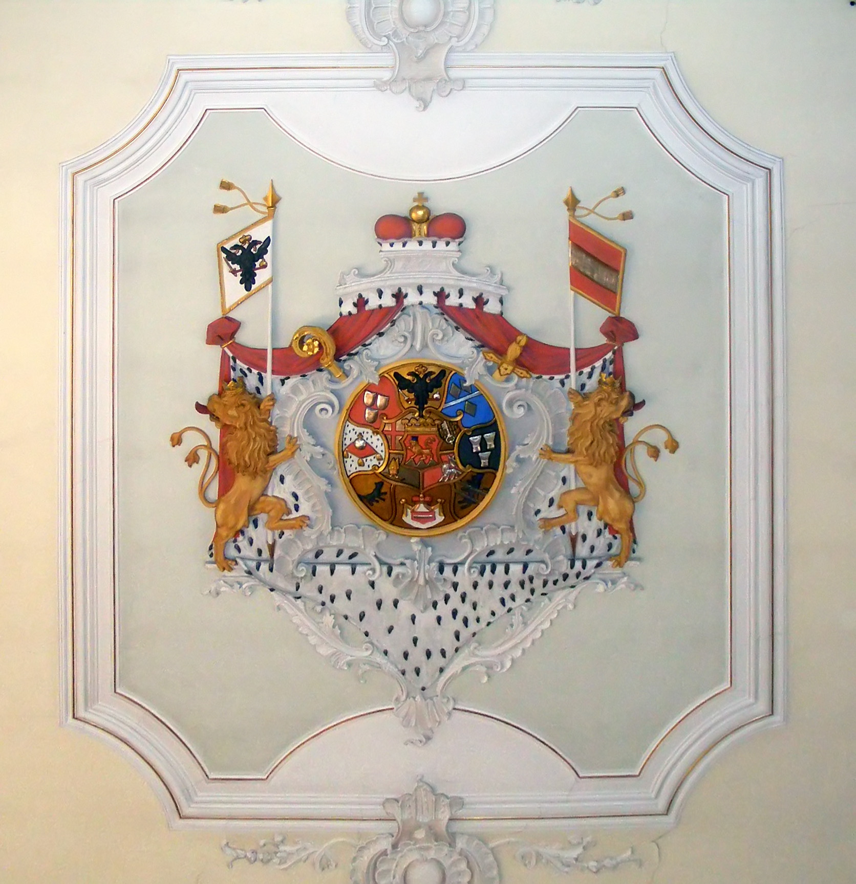 Retouched version of Bild:2008-Dirmstein-Laurentius-kath-Wappenschild-048.jpg, which has the following description